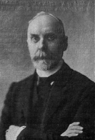 Portrait of the politician Jenő Balogh